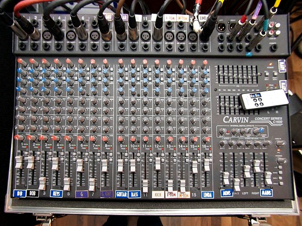 Carvin Concert series C1600 neon cadilac